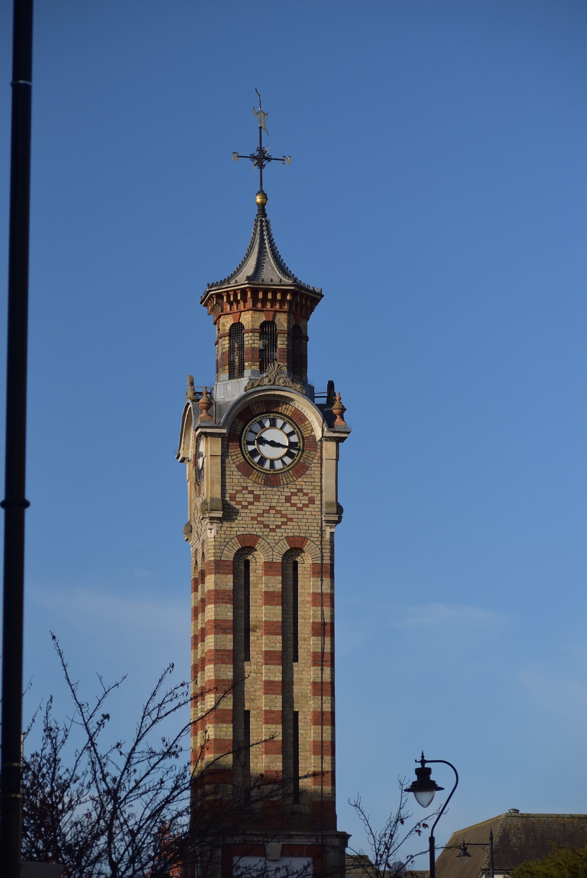 Land Mark